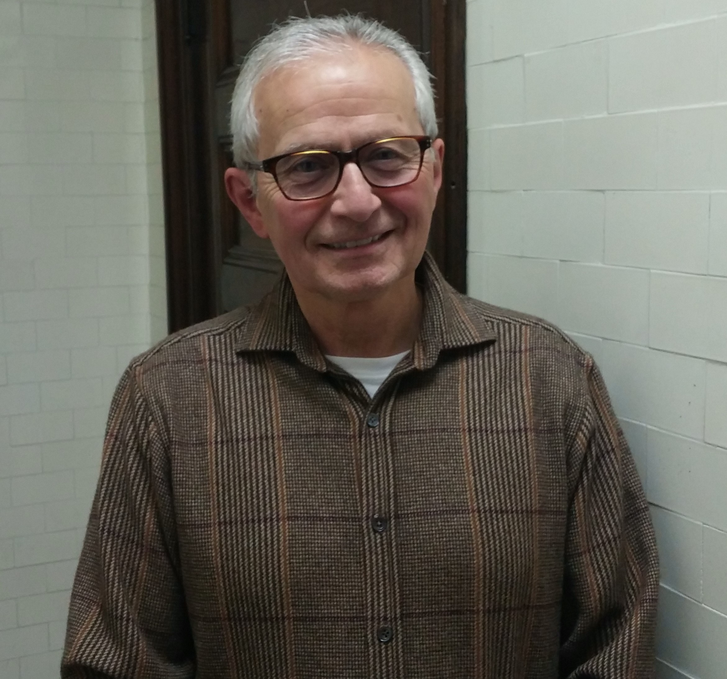 Cropped version of original. Nick Donofrio standing in hallway after speaking to students of Rensselaer Polytechnic Institute's Back to the 60's class.